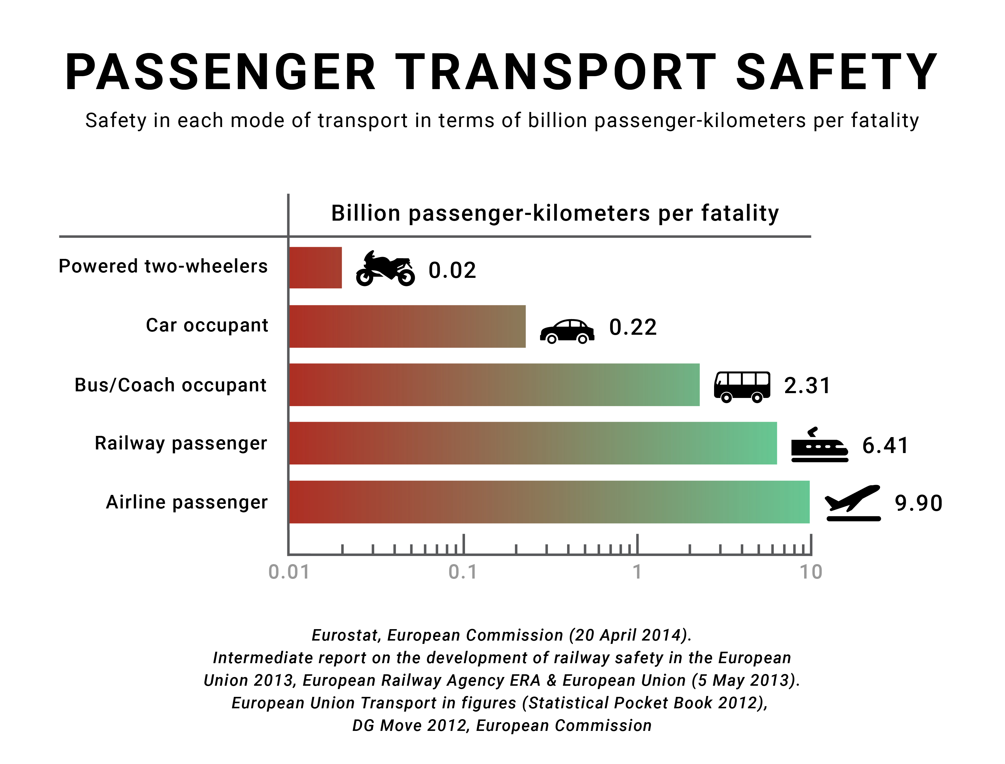 Fatality risk per mode of transport in European Union. Based on data by EU-27 member nations, 2008-2010. Source: Eurostat & Safety Unit, ERA Report 2013[1][2]